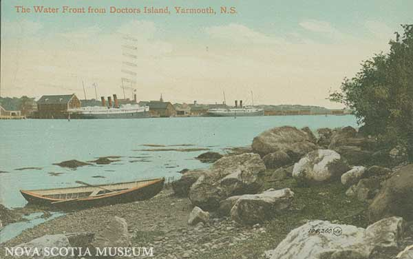 A postcard showing Yarmouth Harbour in Yarmouth, Nova Scotia.